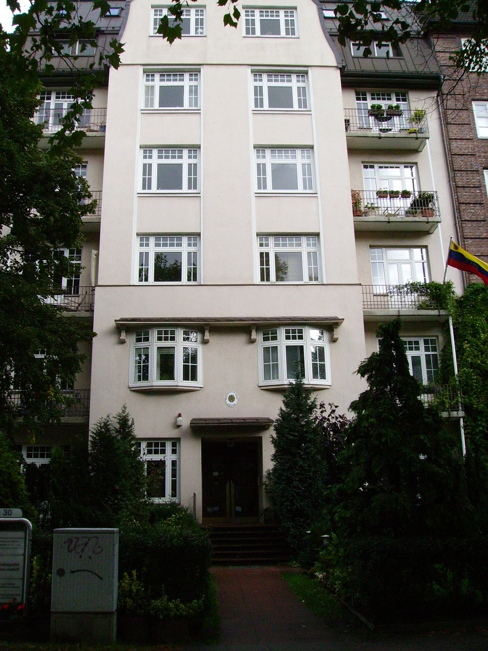 Residential building with the Consulate of Venzuela in Hamburg, Rothenbaumchaussee 30